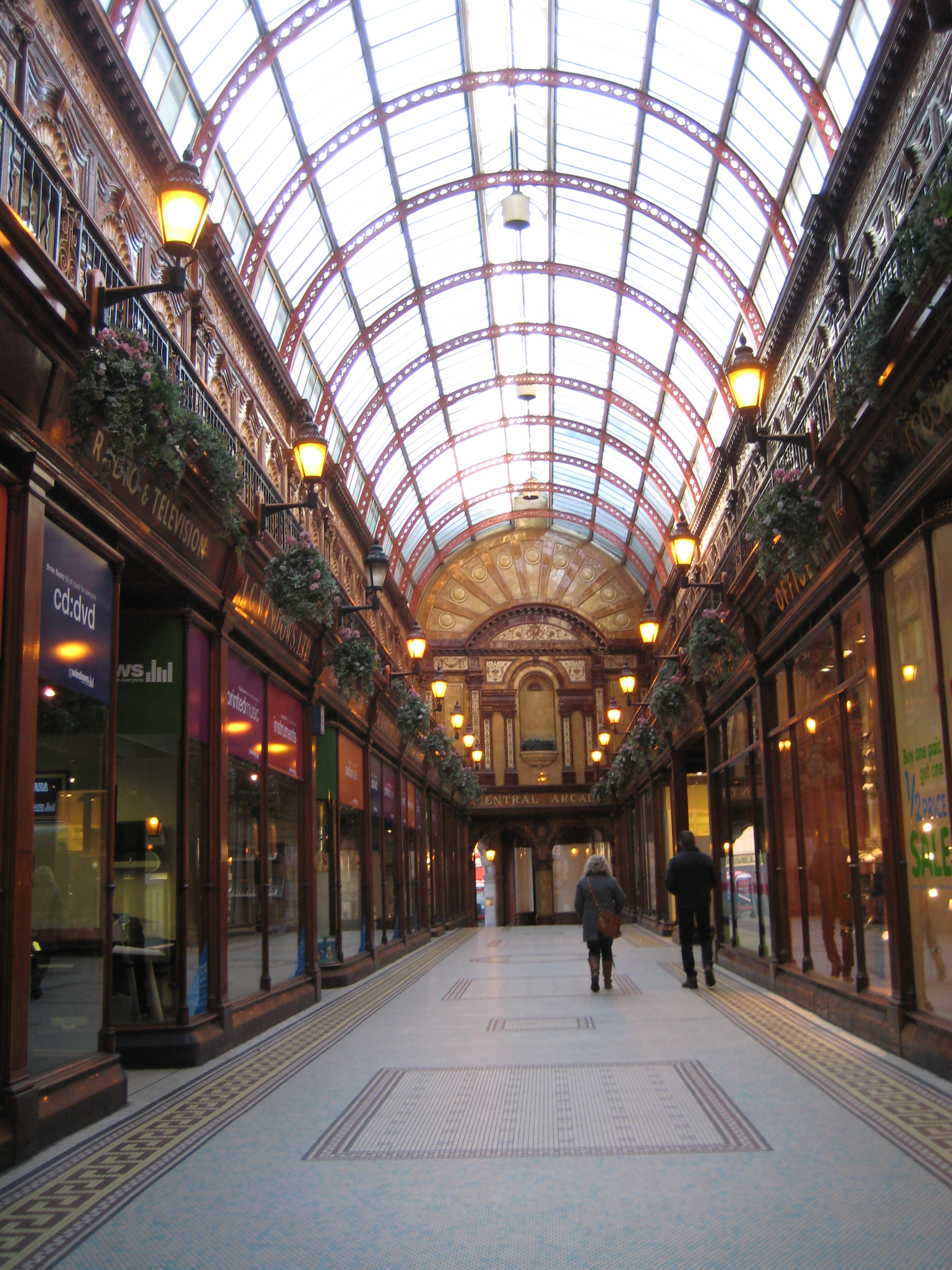 Central Arcade, Newcastle upon Tyne, UK.